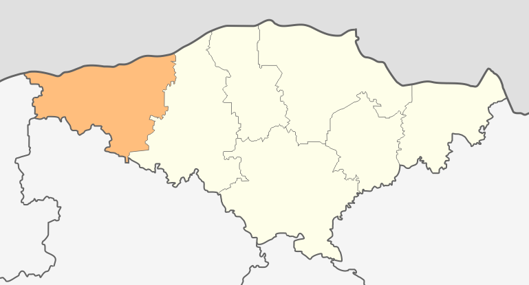 Map of Tutrakan municipality, Silistra Province